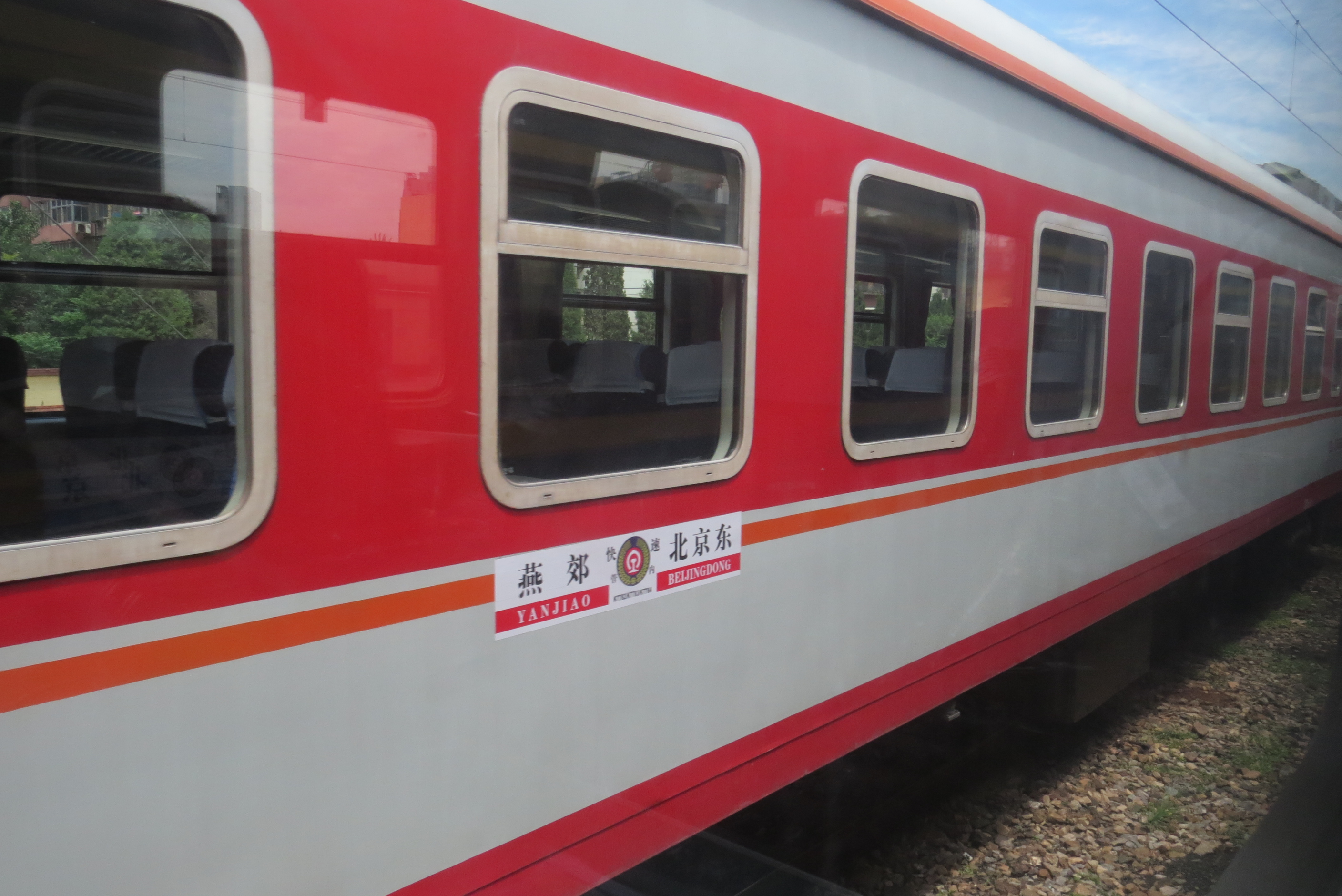 The train from Beijing to Yanjiao, Hebei. I didn't catch K53 here, but discovered this commuter train!